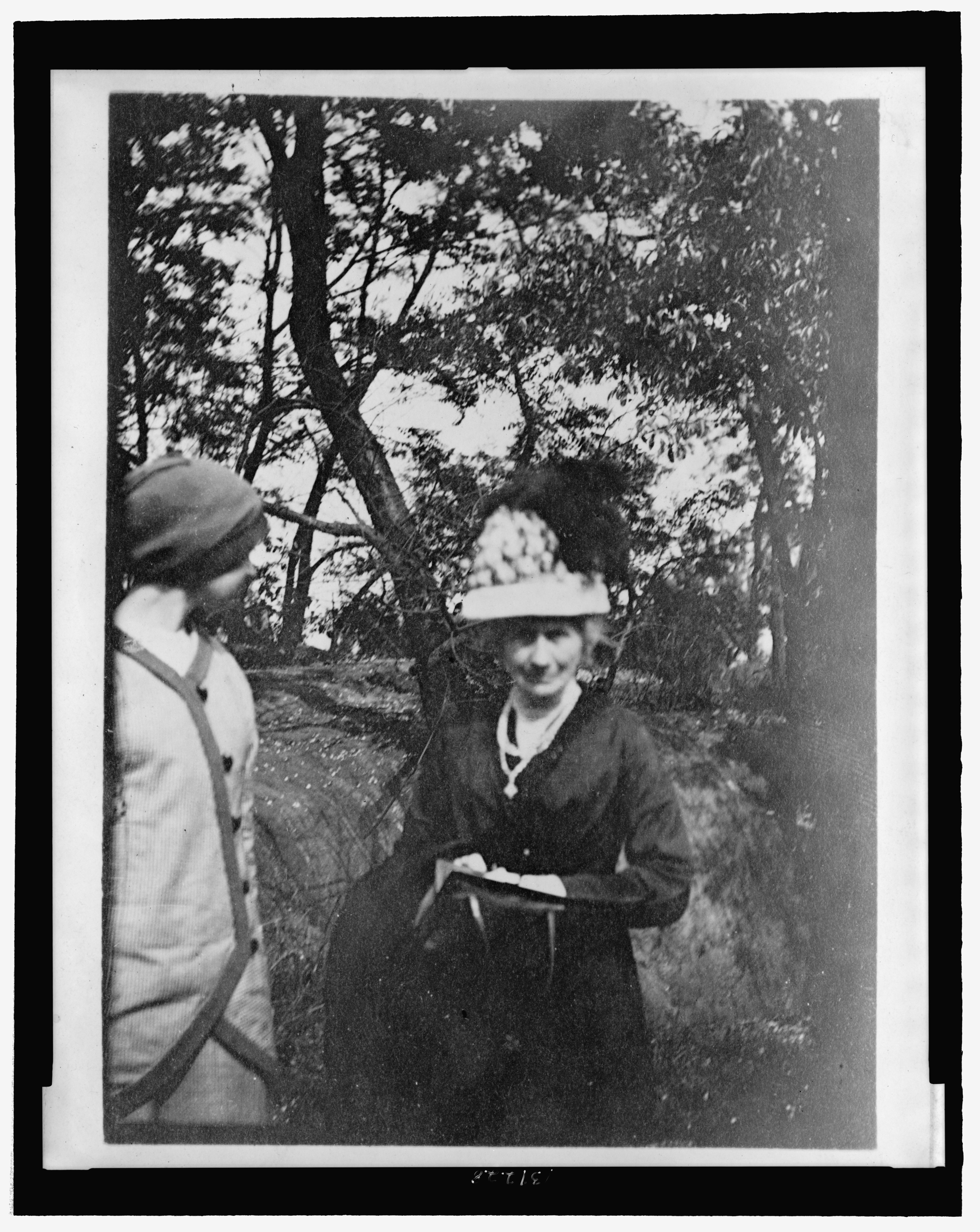 Title: Aunt Addie & Marguerite Abstract/medium: 1 photographic print.